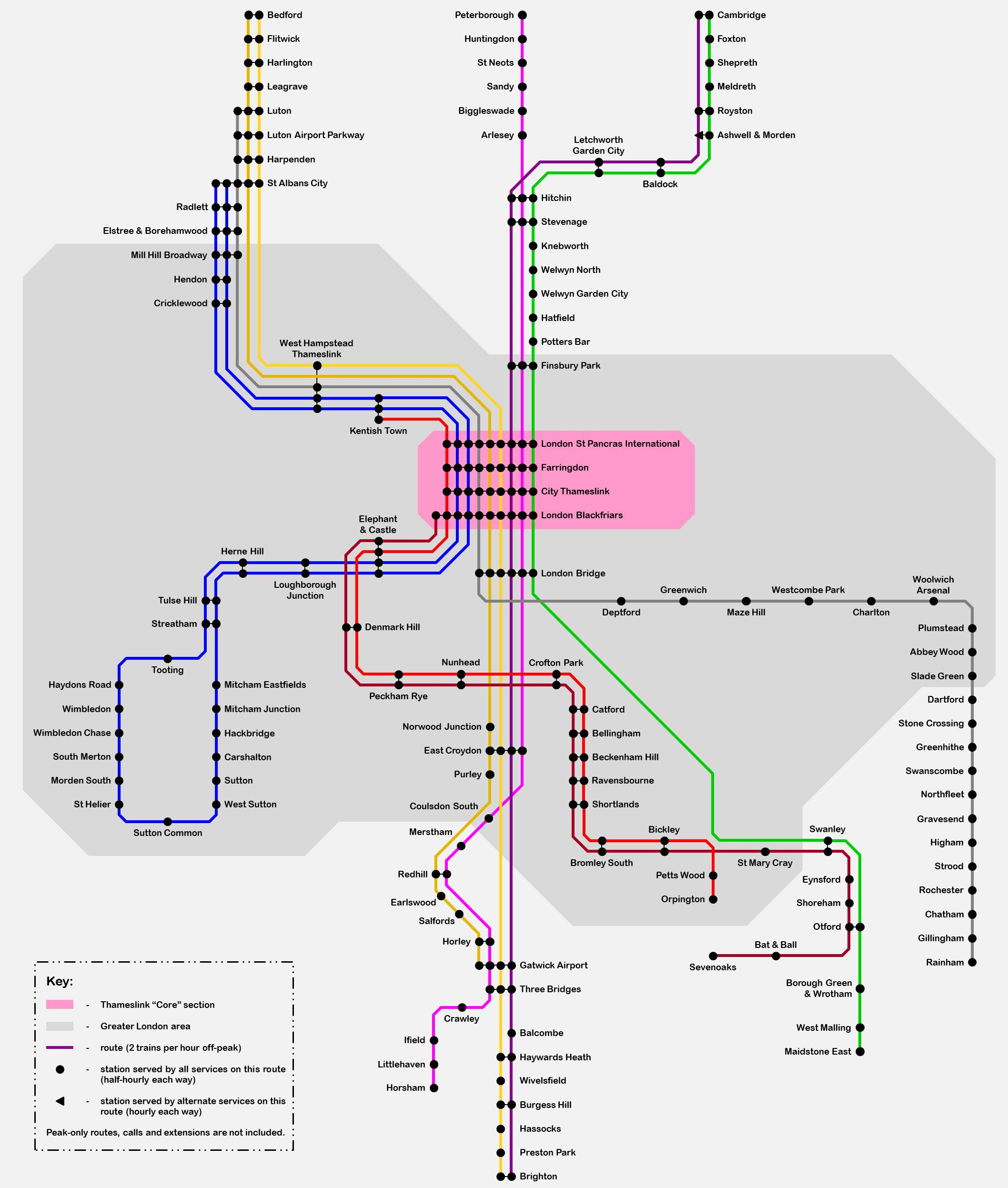 Thameslink network vector map as of January 2020 (including the future extension to Maidstone).